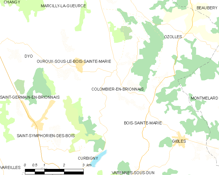 Map of French municipality